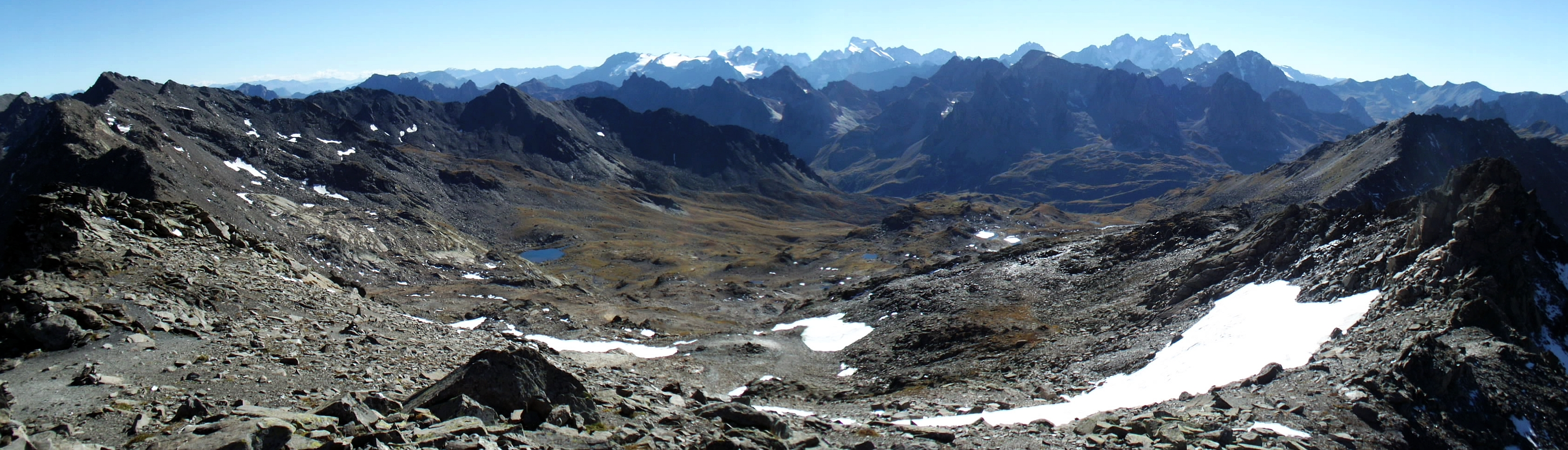 Roche du Chardonnet: panorama towards Clarée valley